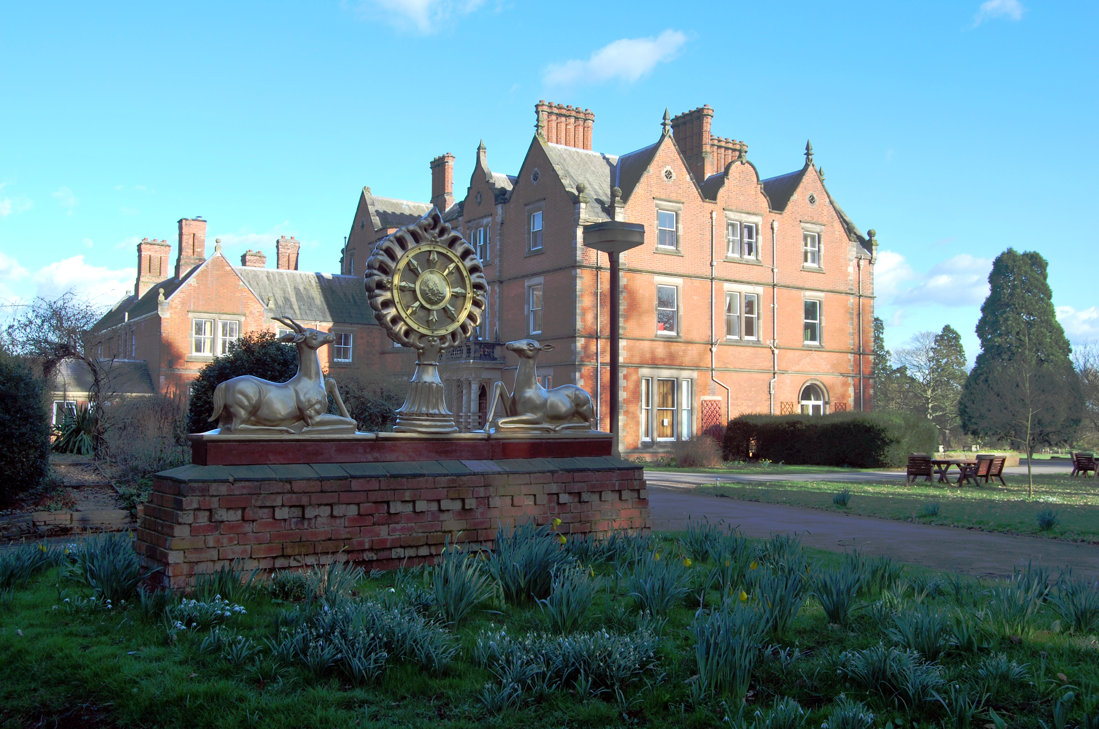 Ashe Hall near Etwall, Derbyshire UK. Home of the Tara meditation centre